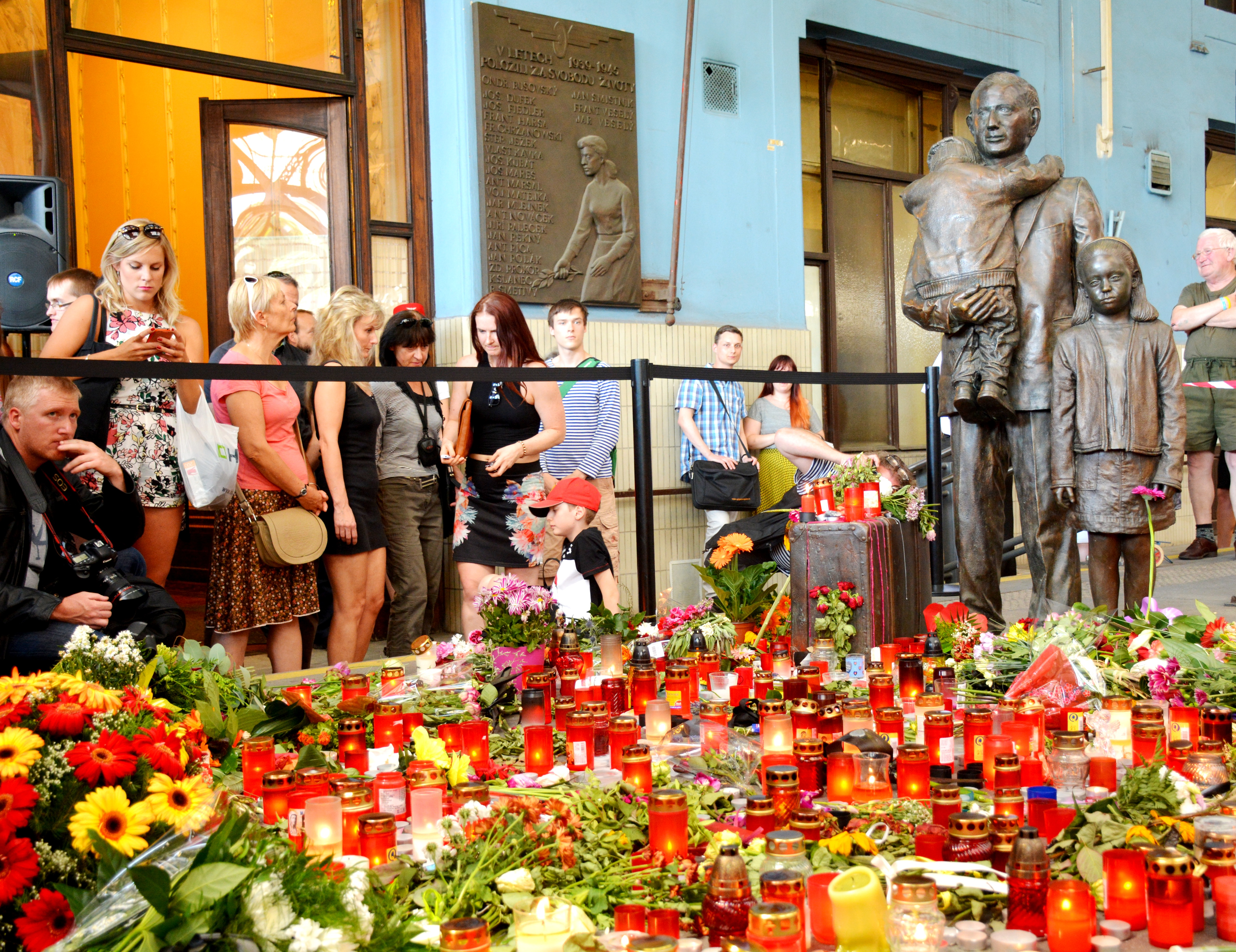 Commemorative event to honor the memory of Sir Nicholas Winton on the first platform at the Prague Main Railway Station at the sculpture, which is dedicated to him. Sculpture author: Flor Kent; sculpture unveiling date: Sept.1st, 2009.